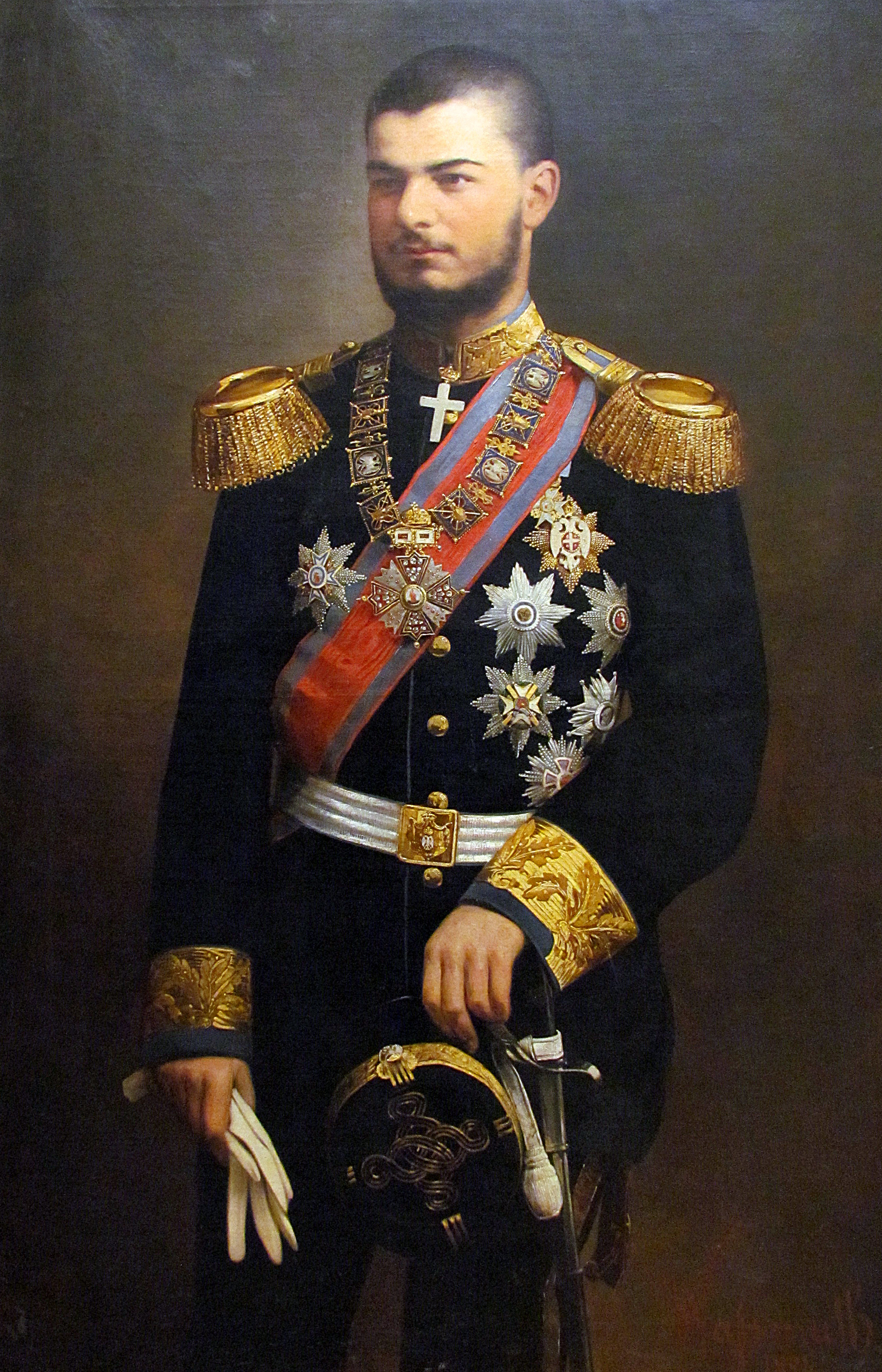 Heinrich Wassmuth: Alexander I of Serbia 1894